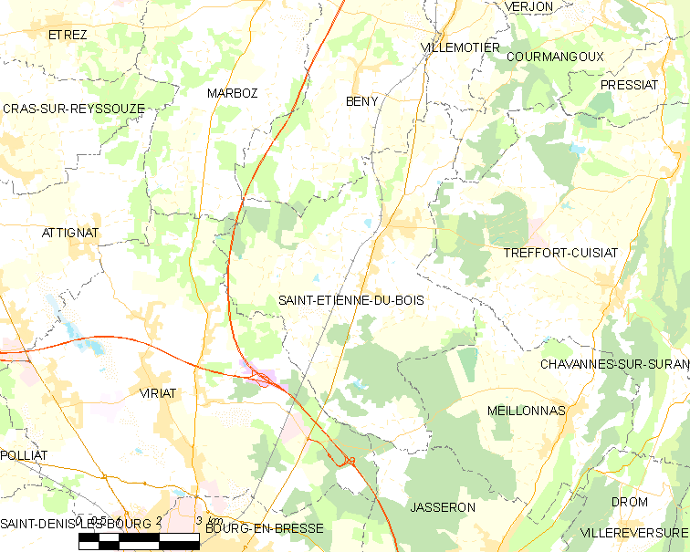 Map of French commune: Saint-Étienne-du-Bois Map commune FR insee code 01350.png